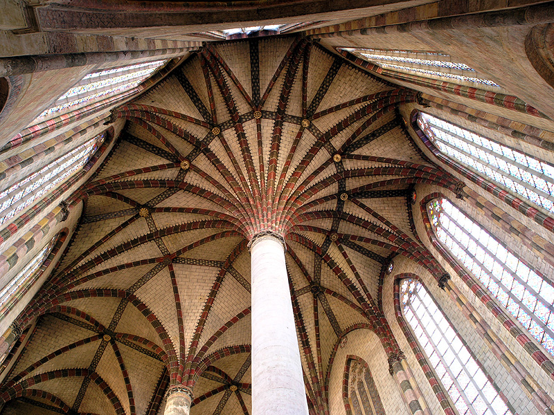 Palm tree at Jacobins' church, Toulouse, France